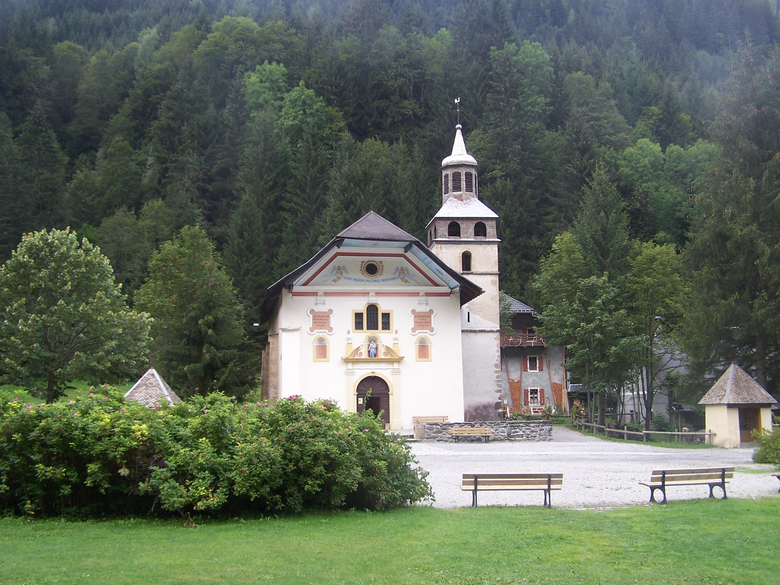 baroque church "Notre Dame de la Gorge" close to Les Contamines-Montjoie